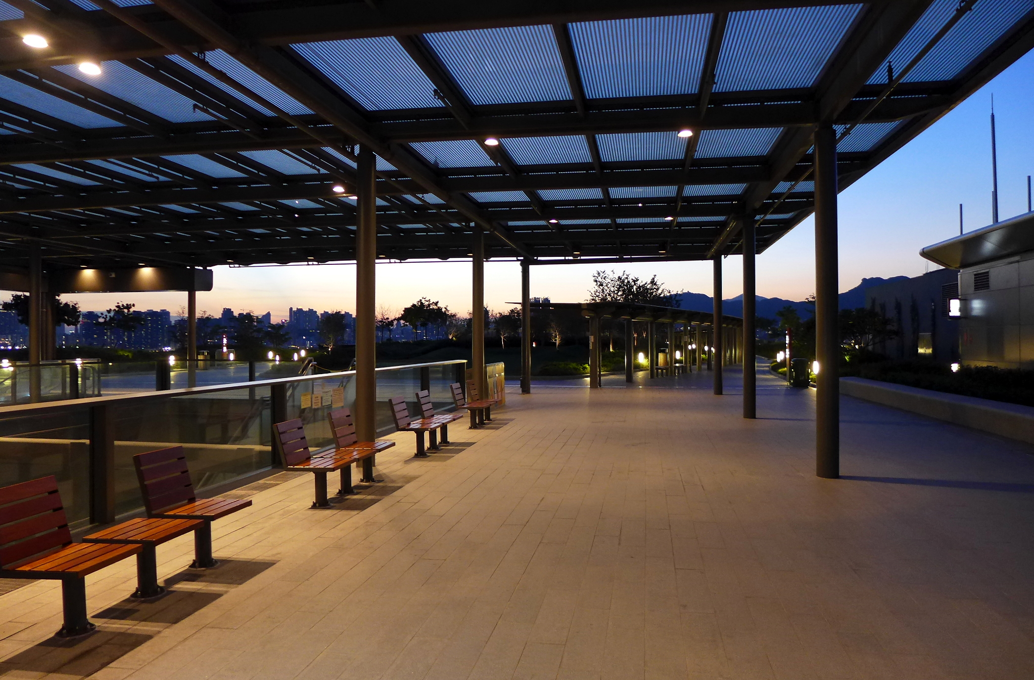 Kai Tak Cruise Terminal Park Escalator Skylight